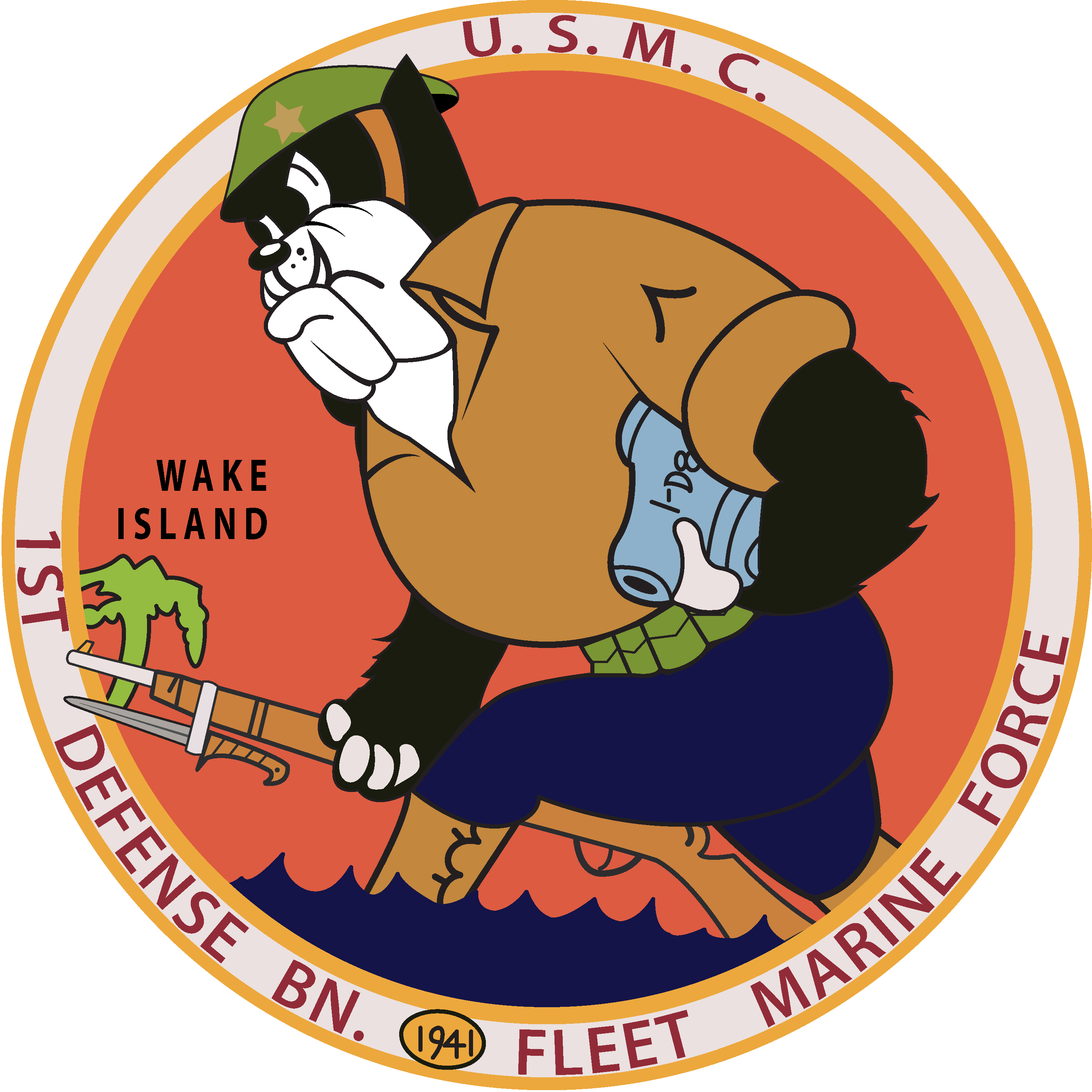 Old insignia for the 1st Defense Battalion used in WWII